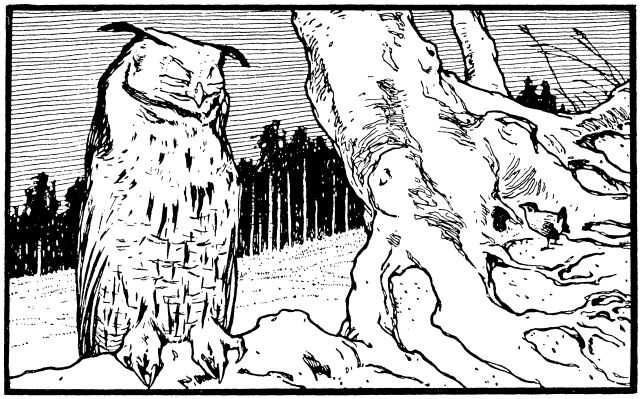 Illustration by Otto Ubbelohde to the fairy tale The Willow Wren